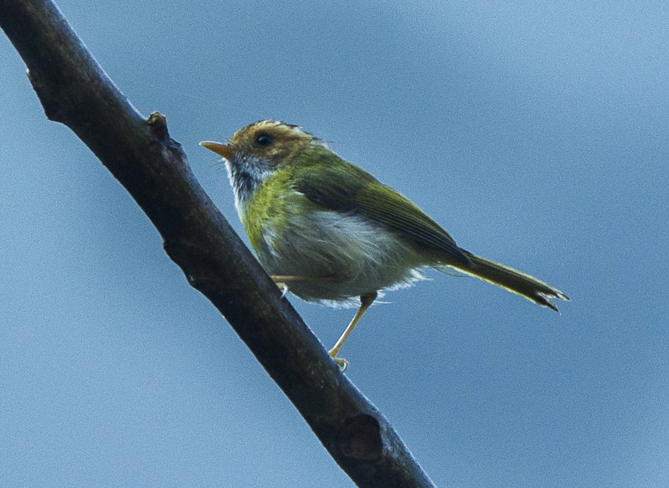 Rufous-faced Warbler - Bhutan_S4E0984